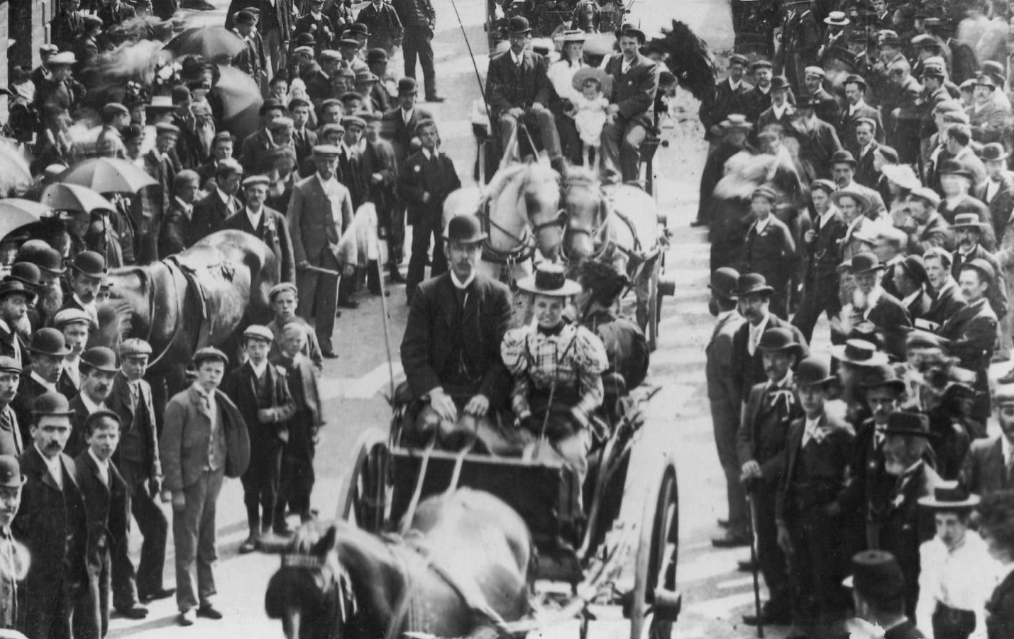 The July 1919 Peace Day celebration procession at Penistone in the historical West Riding of Yorkshire, now South Yorkshire, England.